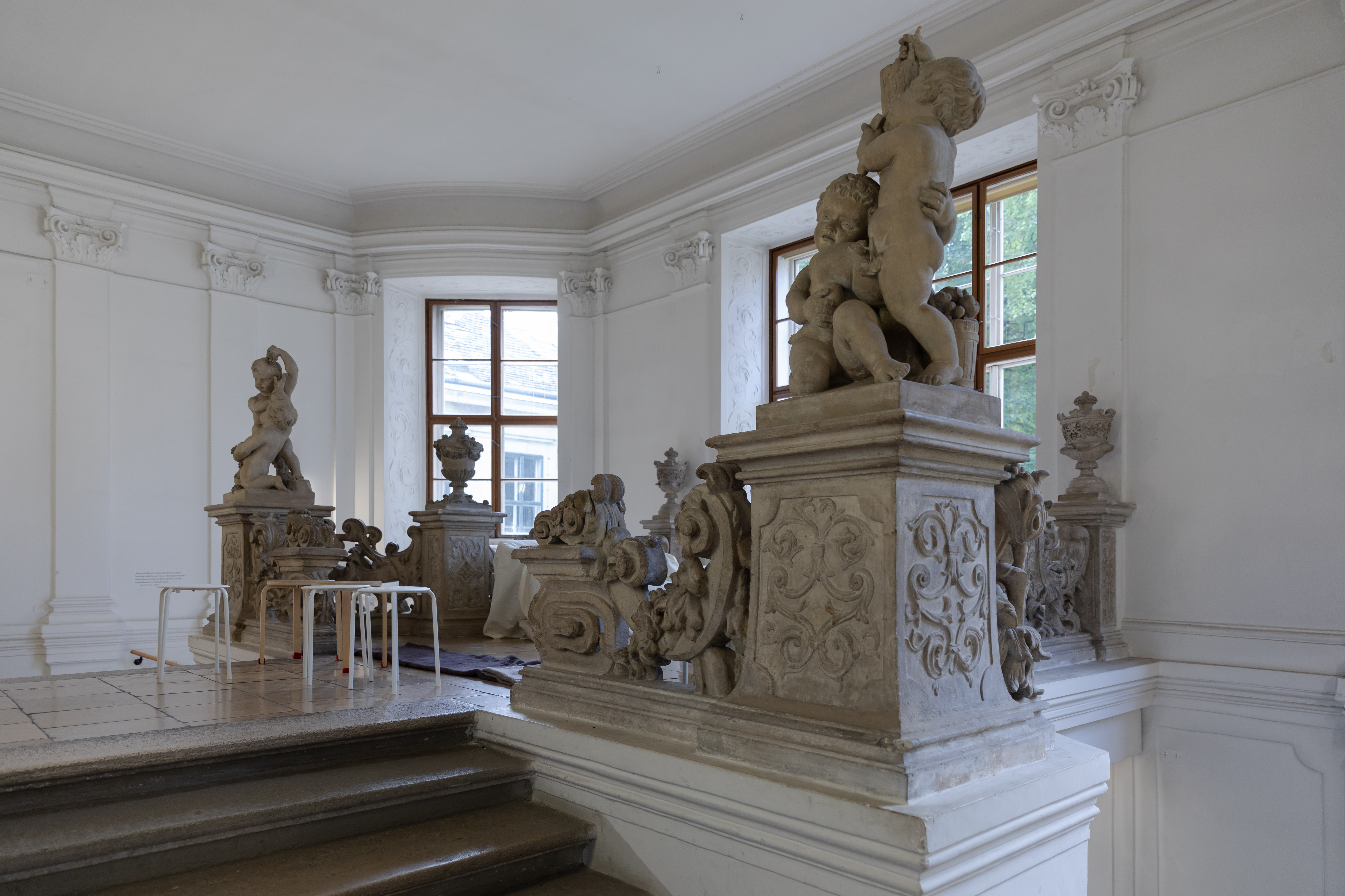 Palais Schönborn (Austrian Museum of Folk Life and Folk Art), Vienna, Austria.